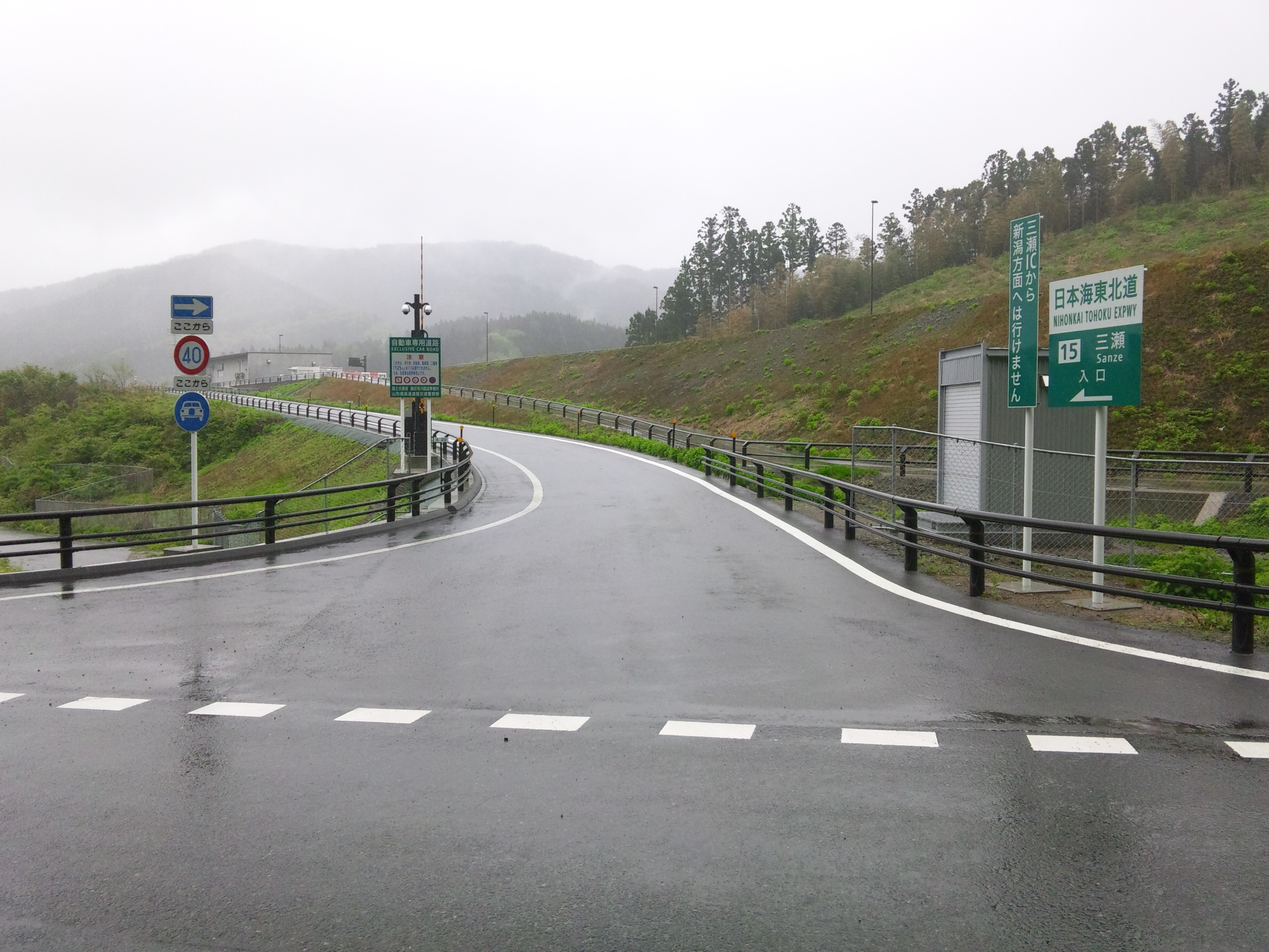 Sanze Interchange, Nihonkai-Tohoku Expwy, Japan.